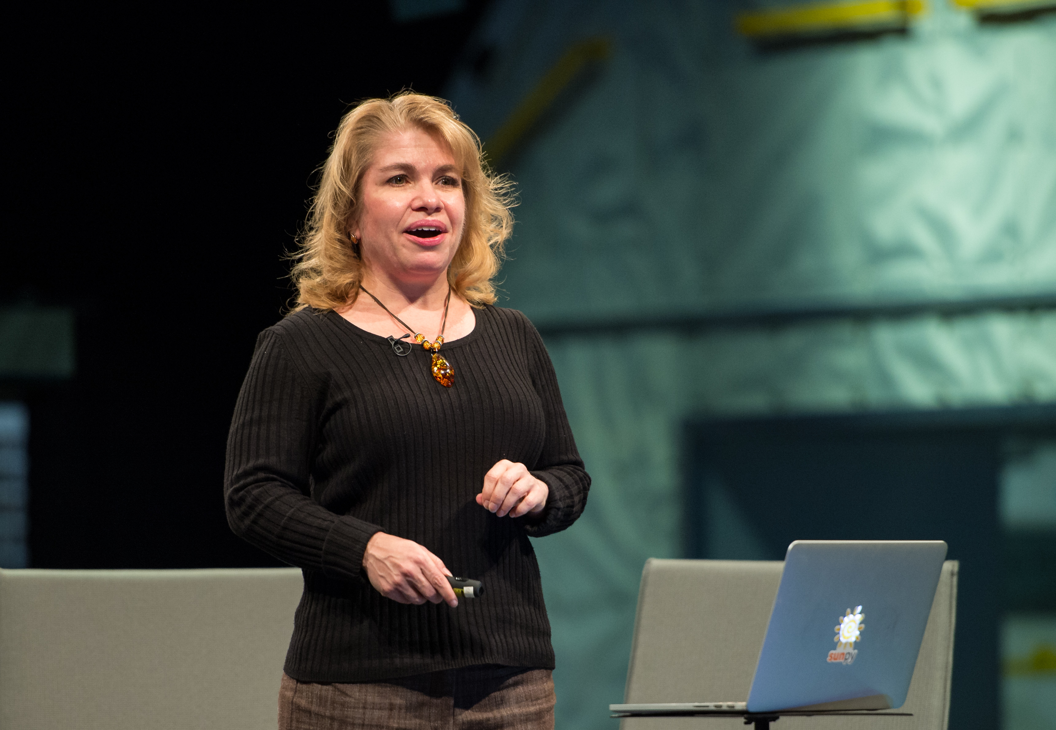 Barbara Thompson, solar physicist, NASA Goddard Space Flight Center, Sciences and Exploration Directorate, speaks at an event to commemorate the 10th Anniversary of the STEREO mission, Tuesday, October 25, 2016 at the Smithsonian National Air and Space Museum in Washington. The STEREO twin probes were launched in 2006 to monitor the Sun from different angles simultaneously, and alert scientists on Earth about dangerous solar flares and other solar weather events. Photo Credit: (NASA/Aubrey Gemignani)